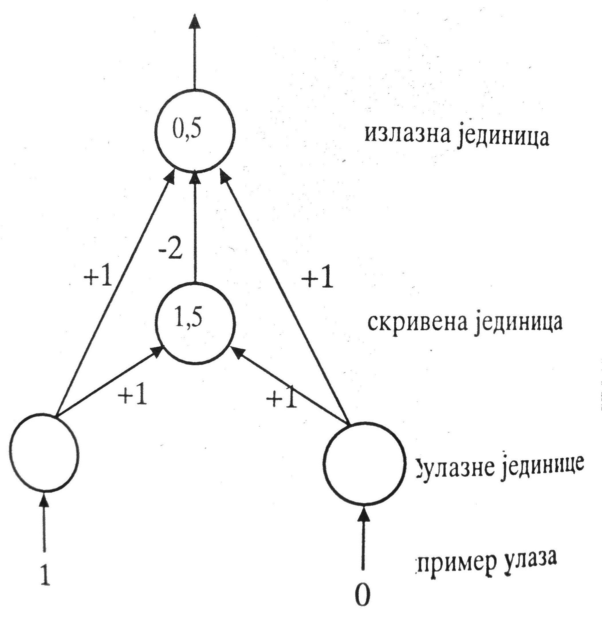 konekcionizam primer2